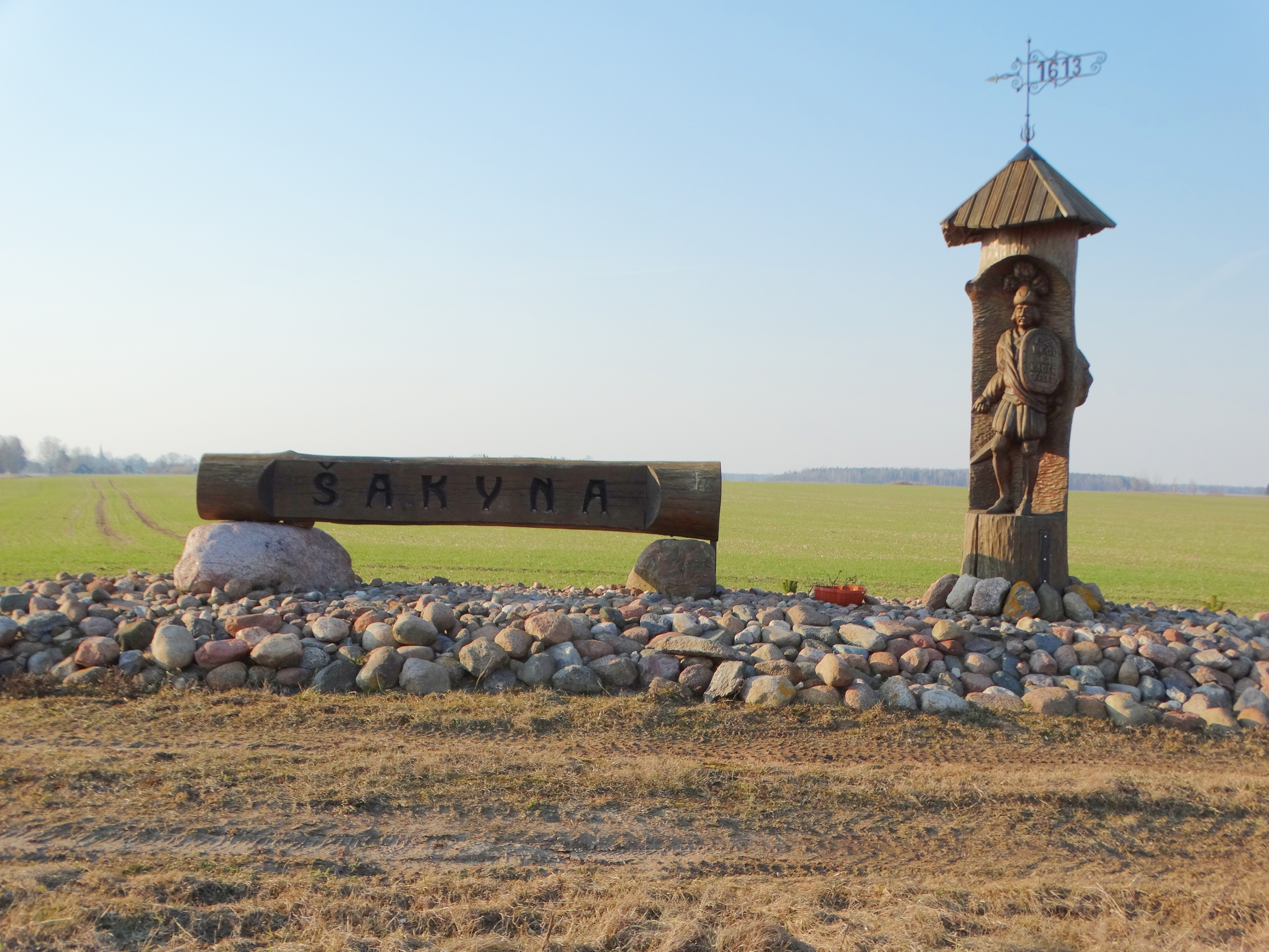 Šakyna, Šiauliai district, Lithuania